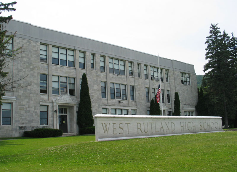 Description: Photograph of West Rutland, Vermont high school Source: Photograph taken by Jared C. Benedict on 01 July 2004. Copyright: © Jared C. Benedict.